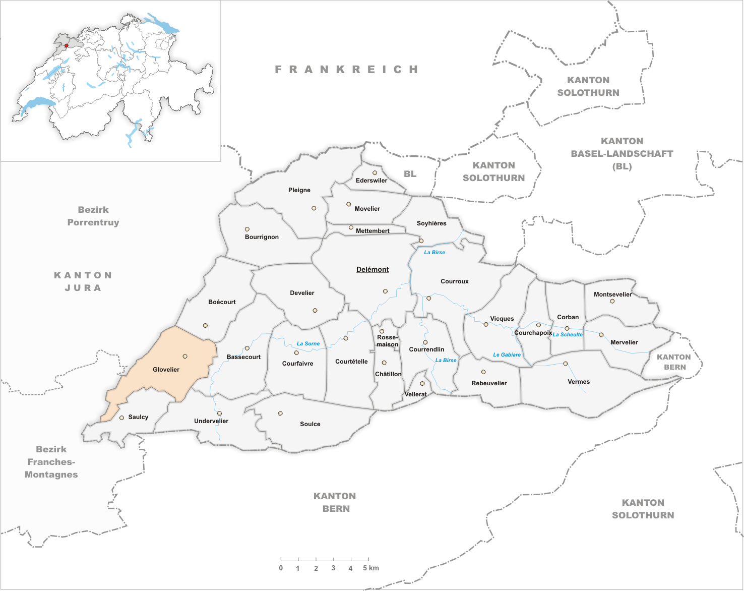 Municipality Glovelier